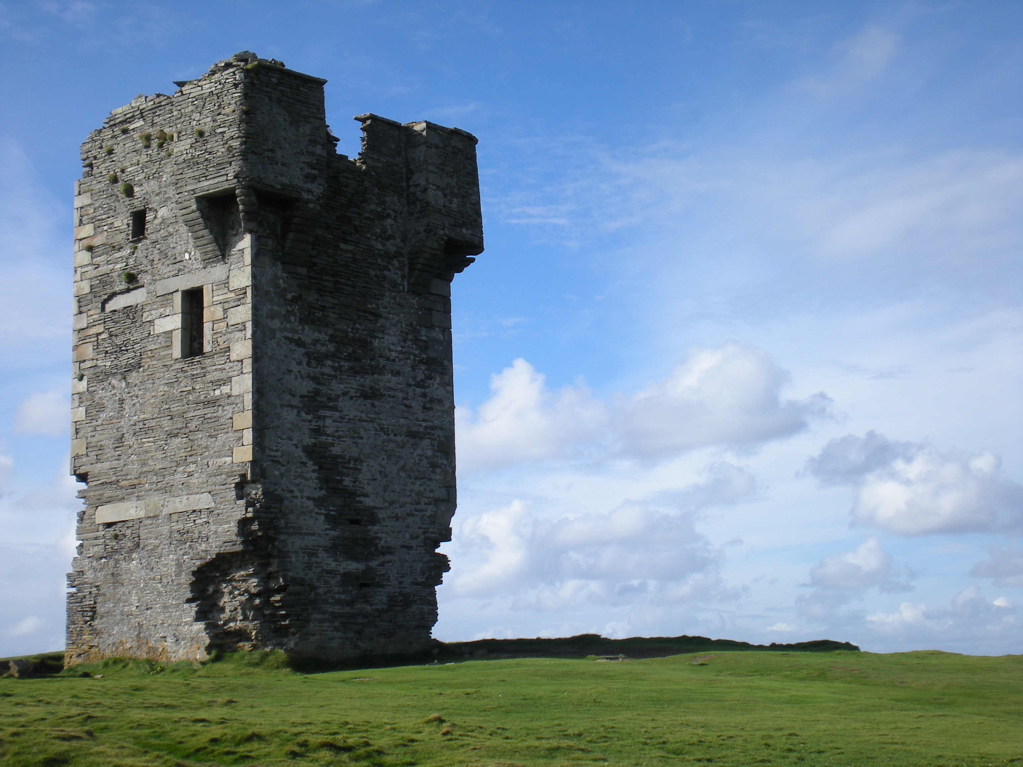 Moher Tower standing on Hag's Head, at the southern end of the Cliffs of Moher